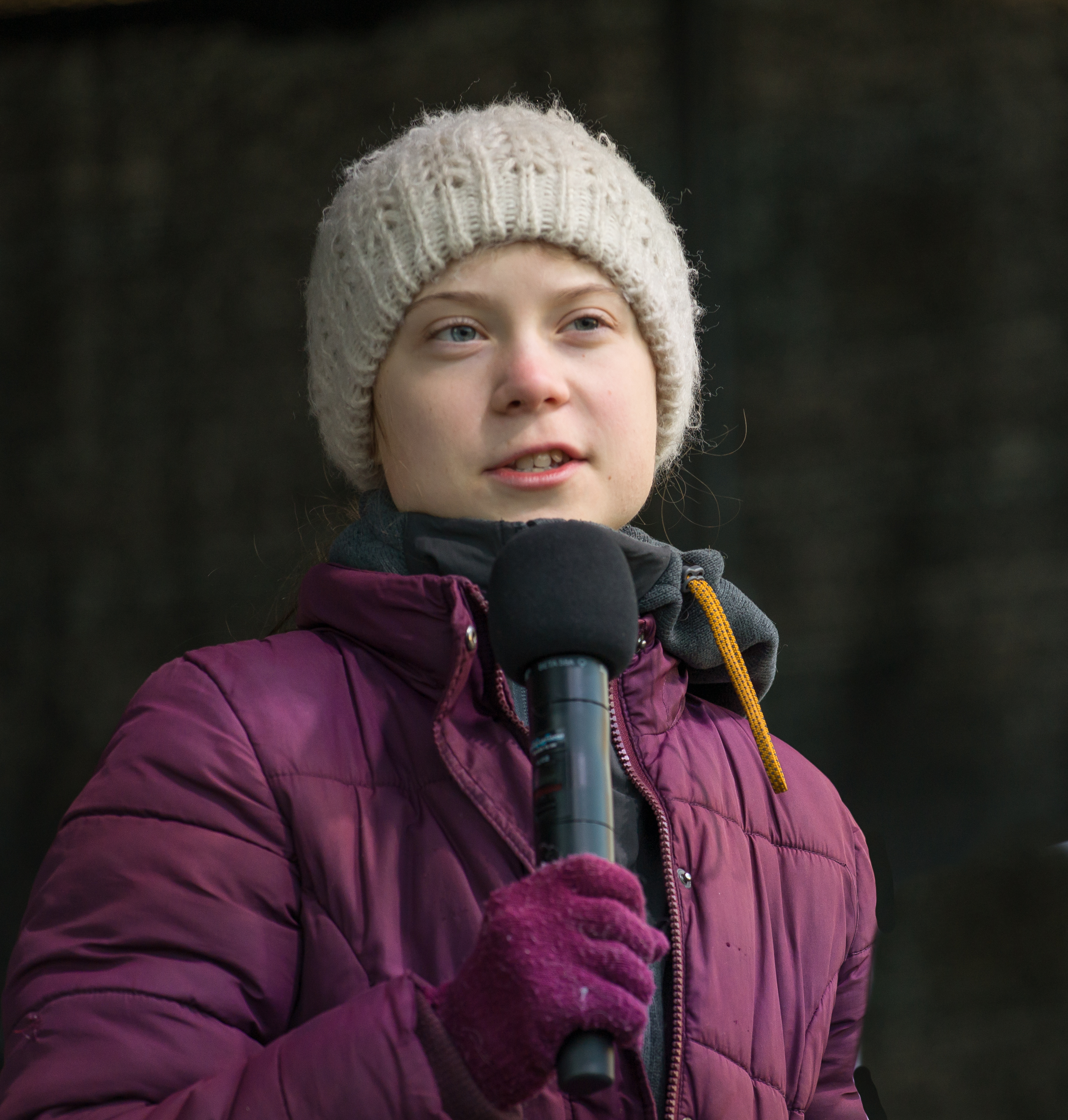 Greta Thunberg on stage during Fridays For Future at Medborgarplatsen in Stockholm on February 14, 2020.